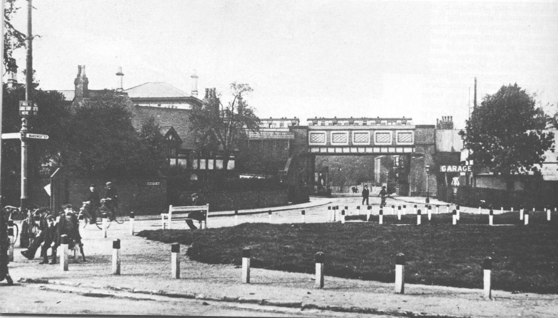 Cheadle LNW railway station c1905 looking north from Cheadle High Street